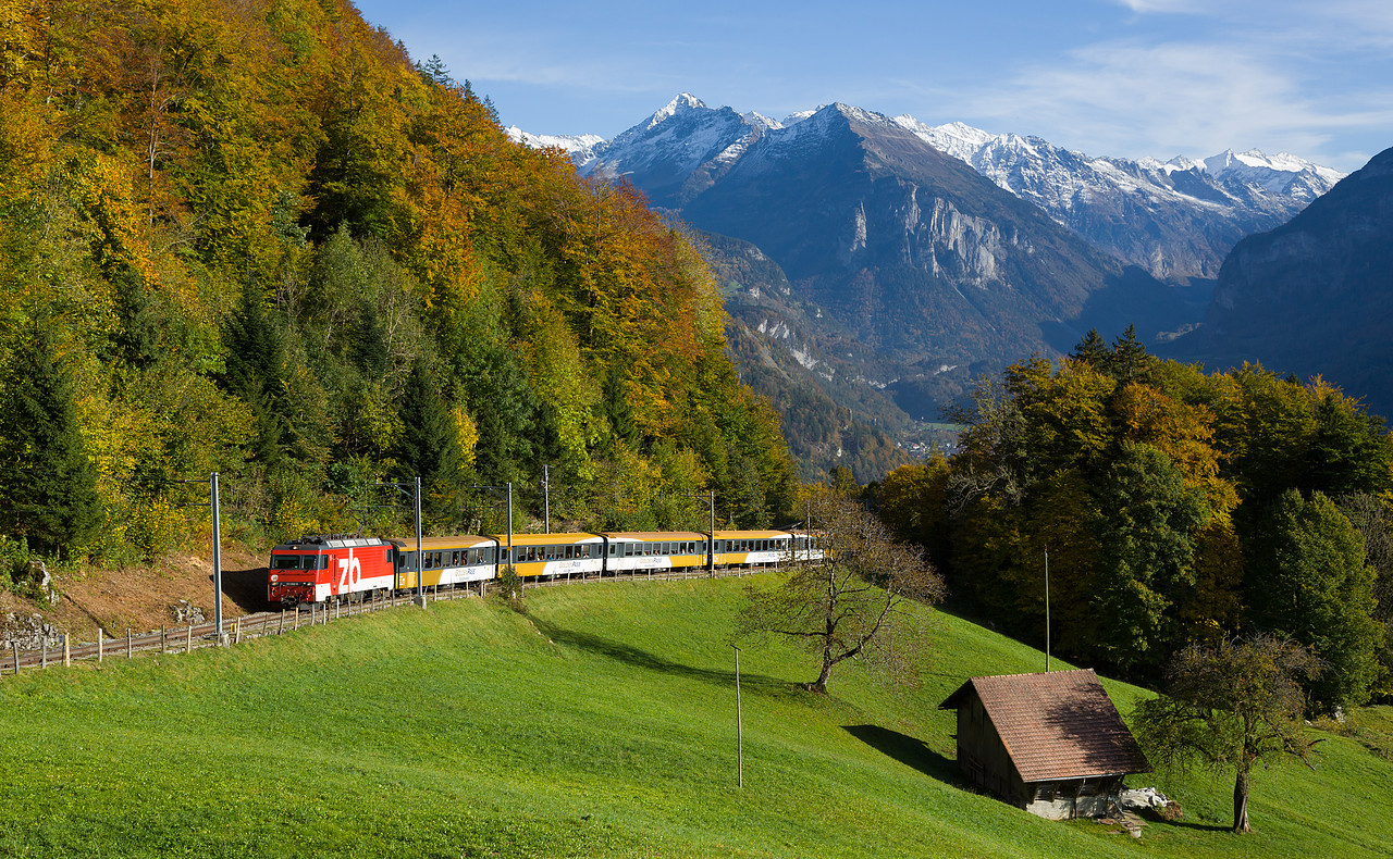 A Zentralbahn "Golden Pass" service is climbing the Brünig Pass on the rack rail section between Meiringen and Brünig-Hasliberg, Switzerland.